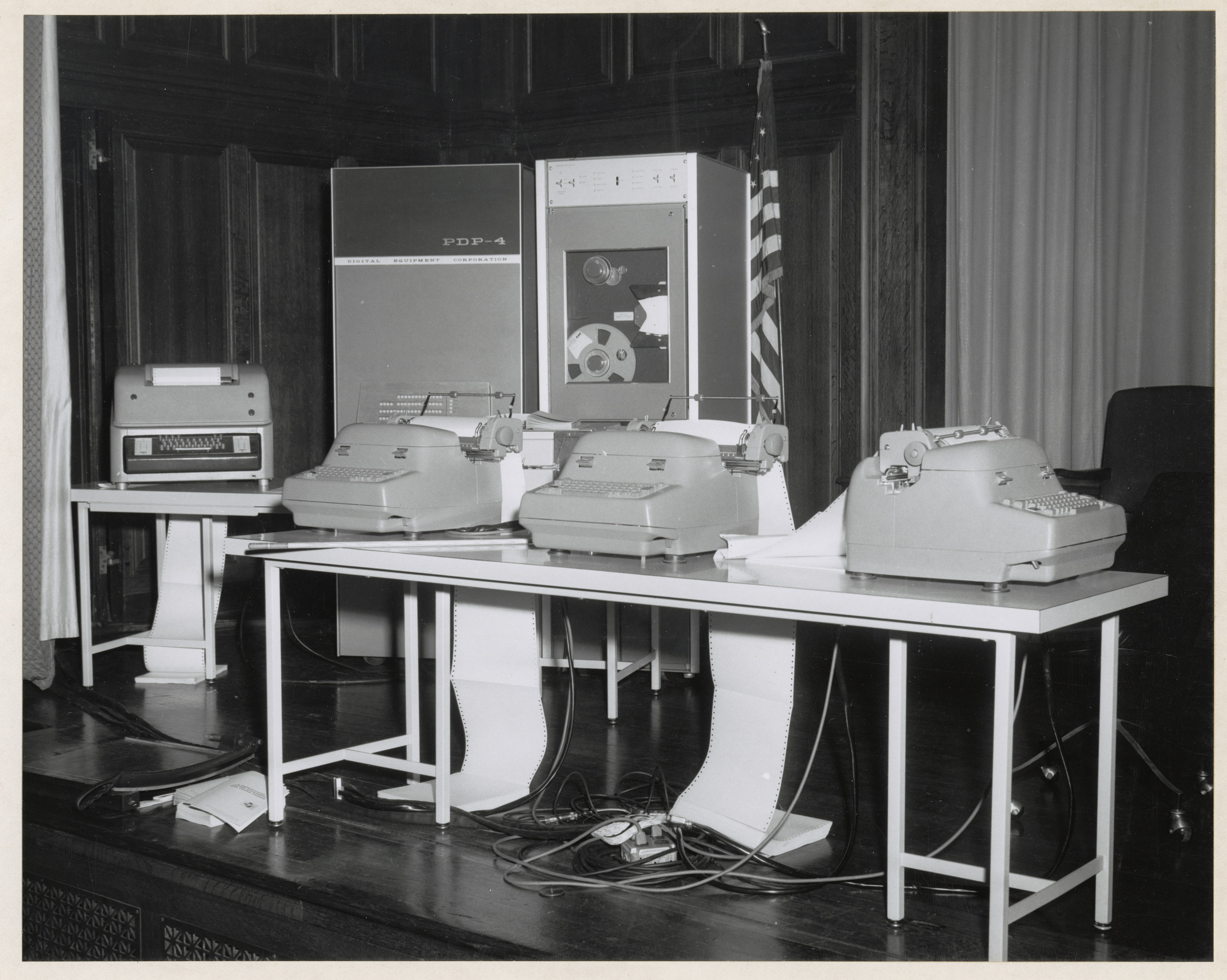 Original Caption: Exhibit of PDP-4 Digital Equipment Corporation machines on the stage of the National Archives auditorium, March 2, 1964. U.S. National Archives’ Local Identifier: 64-NA-2369 Persistent URL: Repository: Still Picture Records Section, Special Media Archives Services Division (NWCS-S), National Archives at College Park, 8601 Adelphi Road, College Park, MD, 20740-6001. For information about ordering reproductions of photographs held by the Still Picture Unit, visit: Reproductions may be ordered via an independent vendor. NARA maintains a list of vendors at Access Restrictions: Unrestricted Use Restrictions: Unrestricted